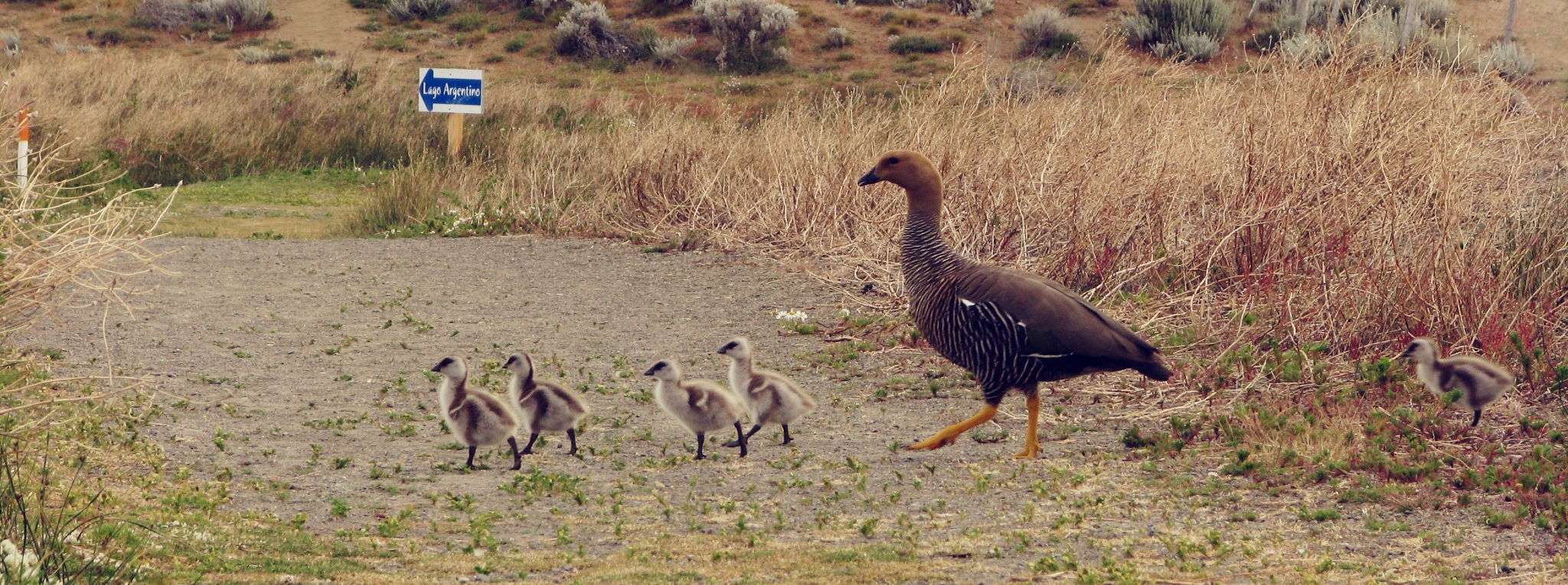 A female Upland Goose caring for her young, Argentino Lake